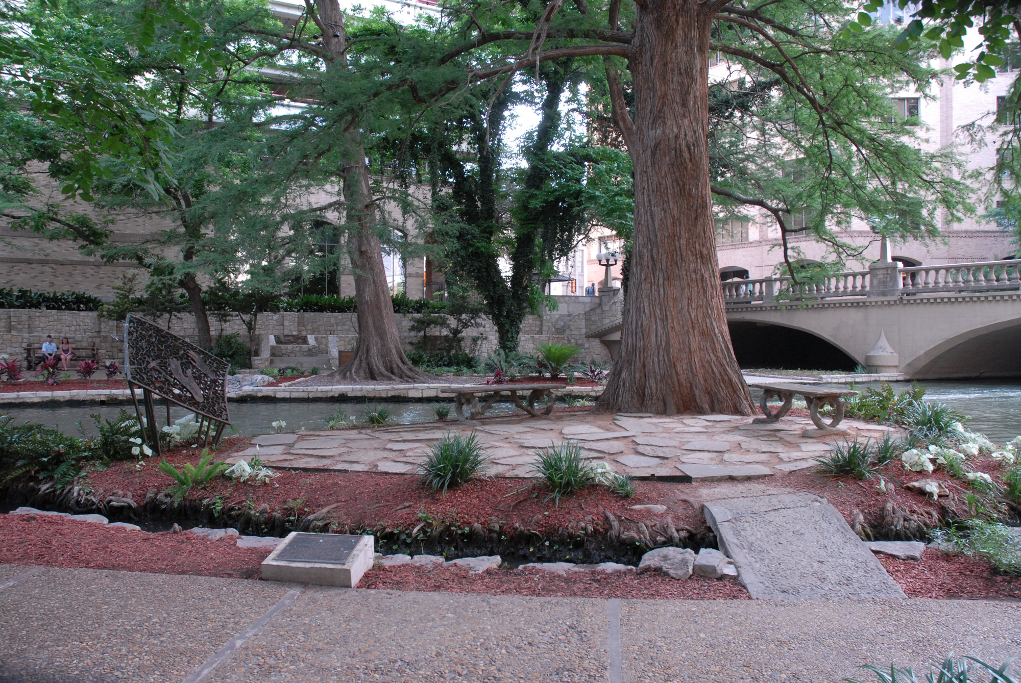 view of Marriage Island from the Hotel Contessa